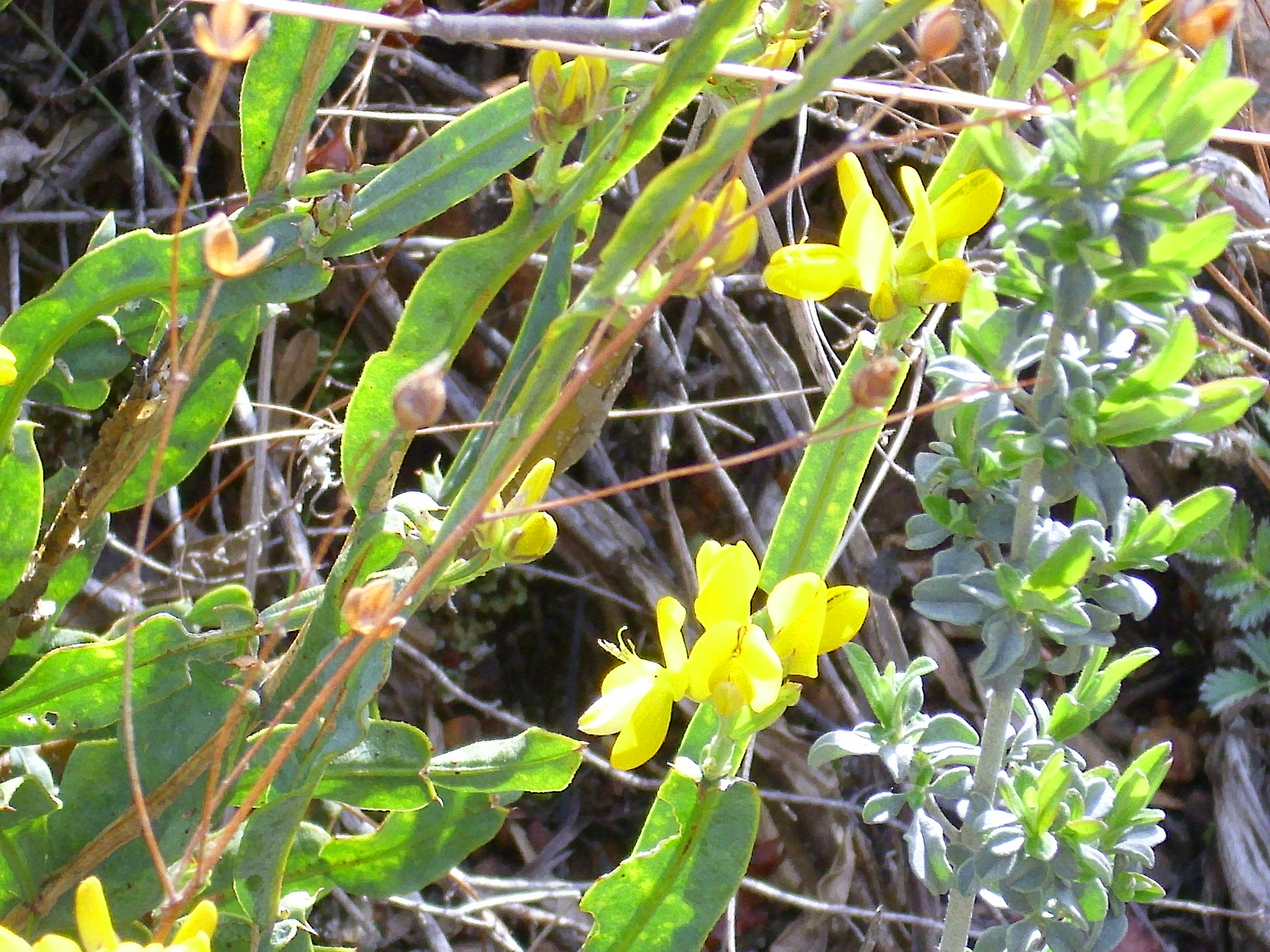 Genista tridentata stem, Valderrepisa Sierra Madrona, Spain